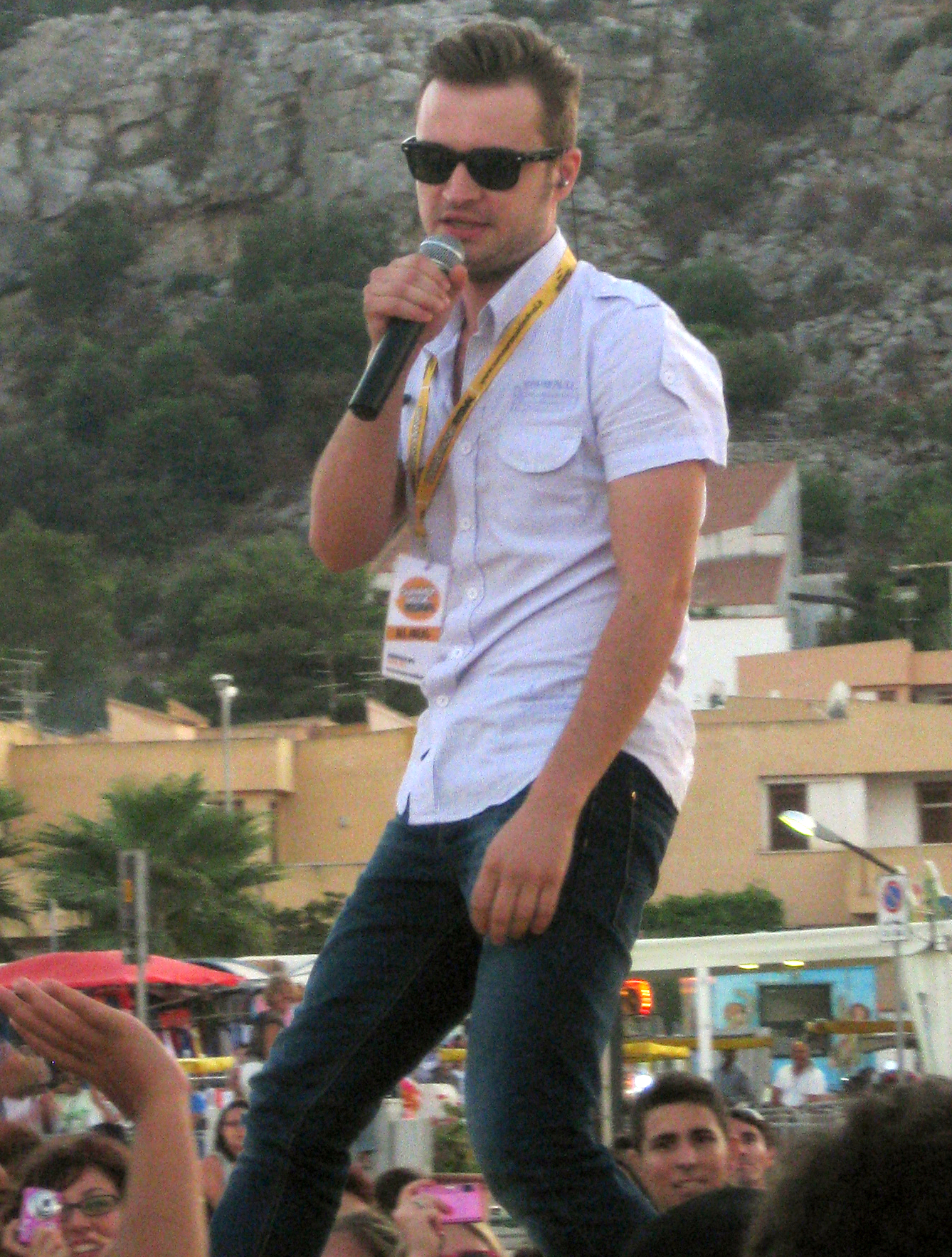 Moldavian singer-songwriter Cătălin Josan. Al Summer Music Festival (San Vito Lo Capo)